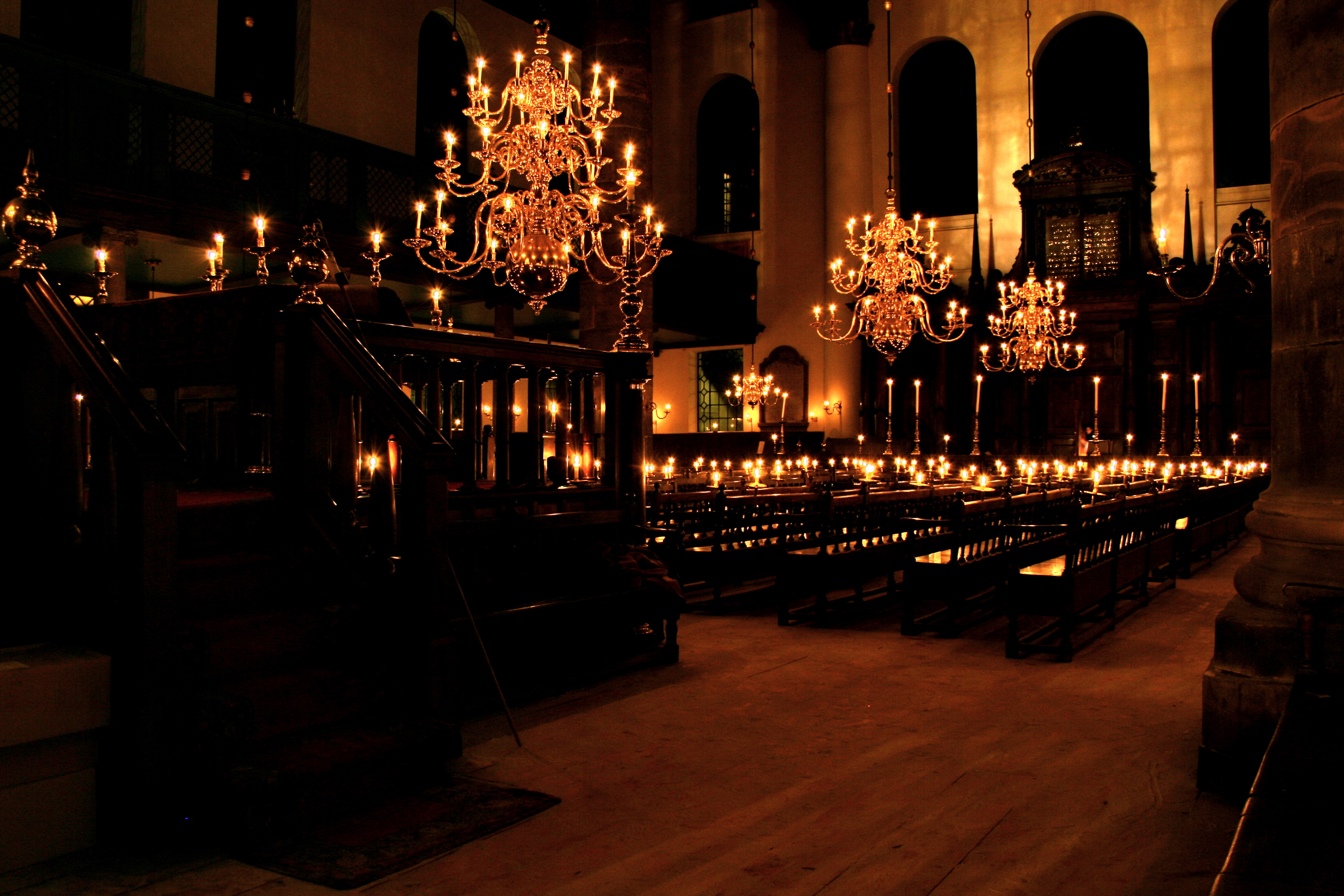 A photgraph taken of the interior of the Esnoga synagogue in Amsterdam.